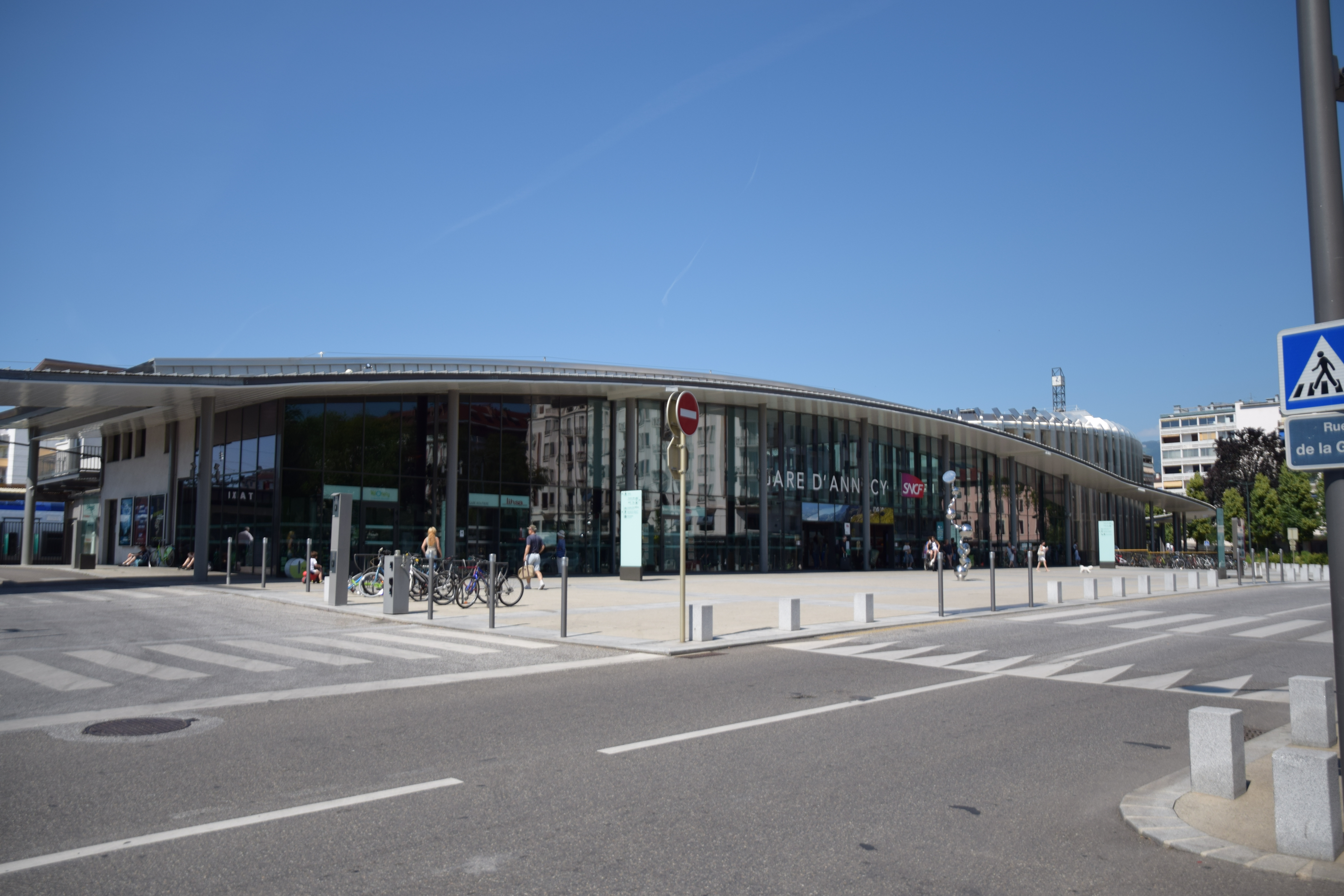 The frontage of Annecy station, Haute Savoie, 18 June 2017. It was built in 2012.